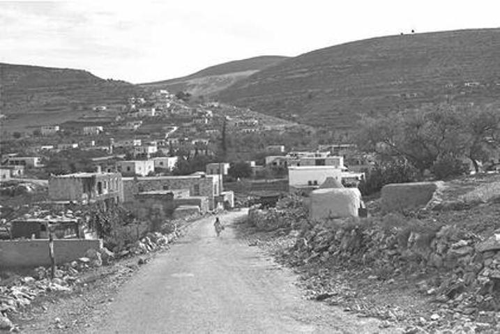 Cities in Israel